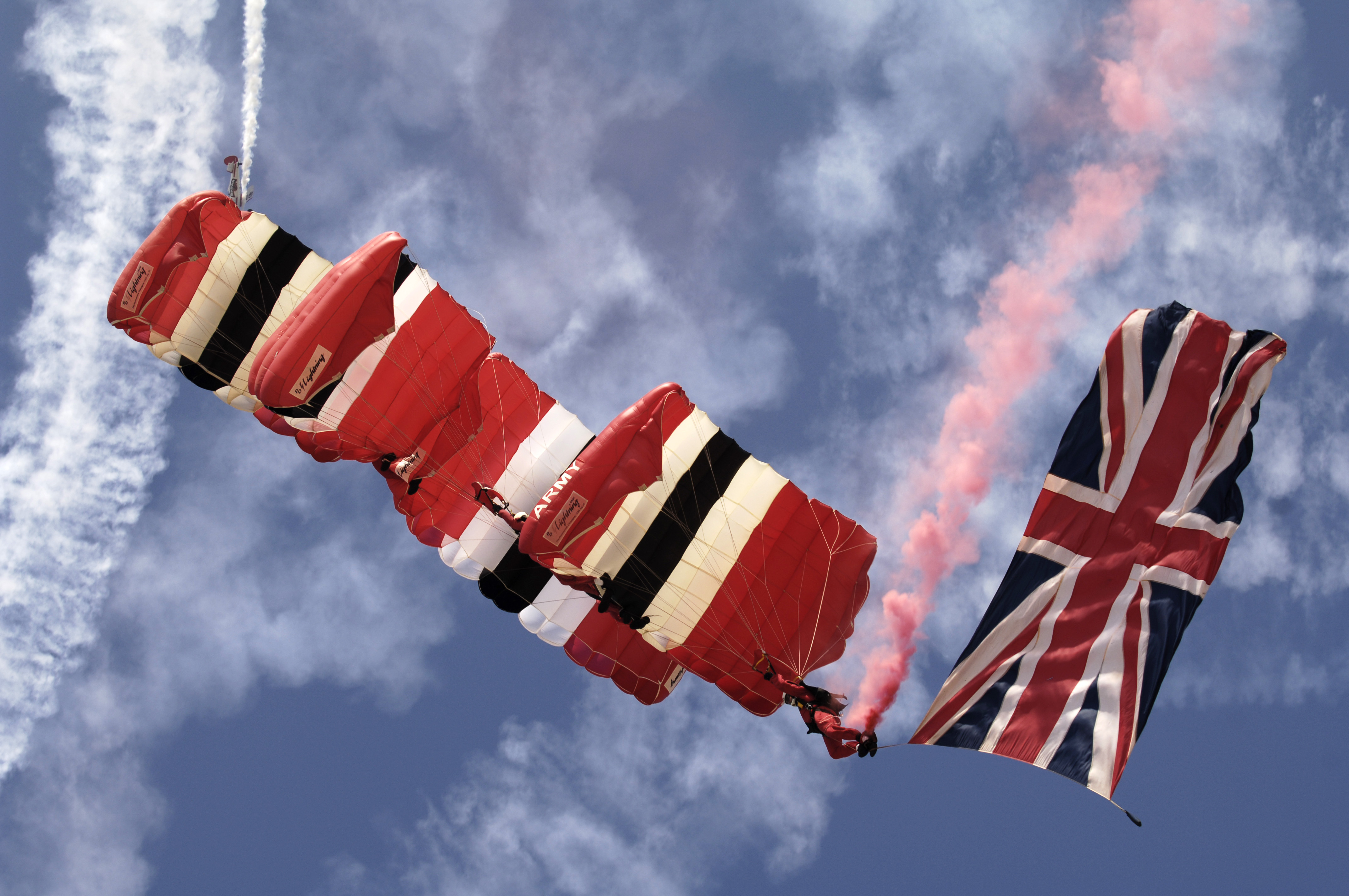 Virginia Beach, Va. (Sept. 17, 2005) - United Kingdom Army Regiment's Red Devils present the Union Jack, during the opening ceremonies of the 2005 Naval Air Station Oceana Air Show. The air show, held Sept. 16-18th, showcased civilian and military aircraft from the Nation's armed forces, which provided many flight demonstrations and static displays. U.S. Navy photo by Chief Journalist Daniel C. Ross (RELEASED)